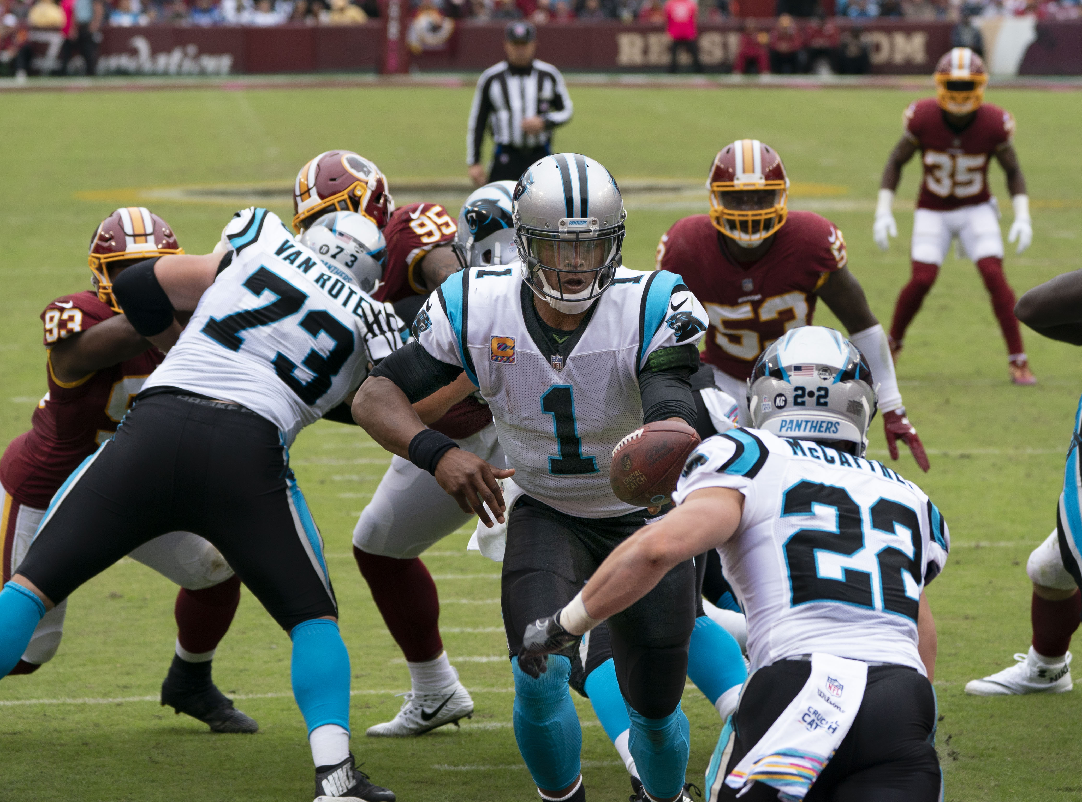 Panthers at Redskins 10/14/18